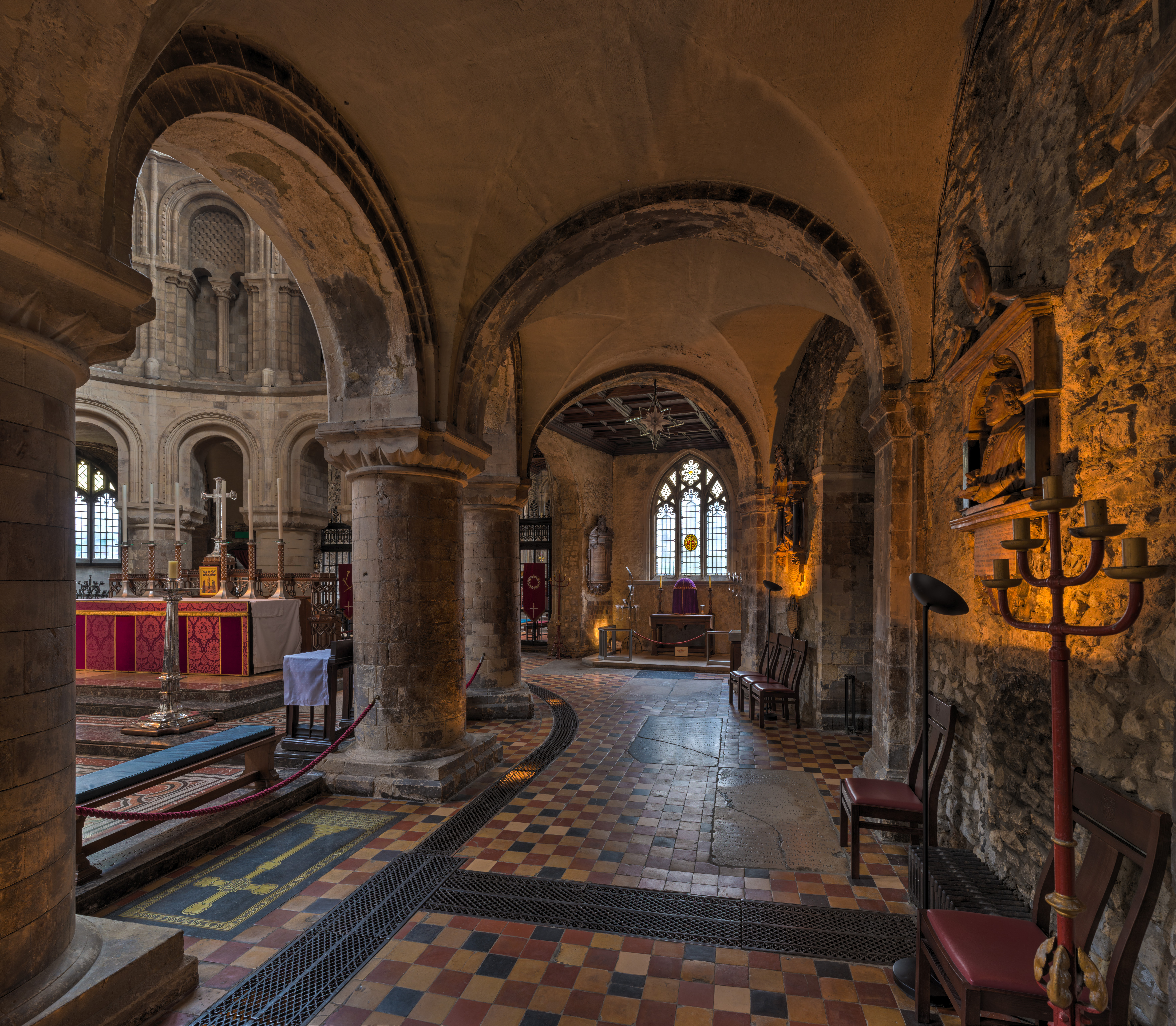 The view looking east along the south aisle of of St Bartholomew-the-Great Priory Church in London, England.